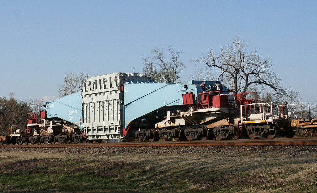 CPOX820, Heavy capacity freight car [1]